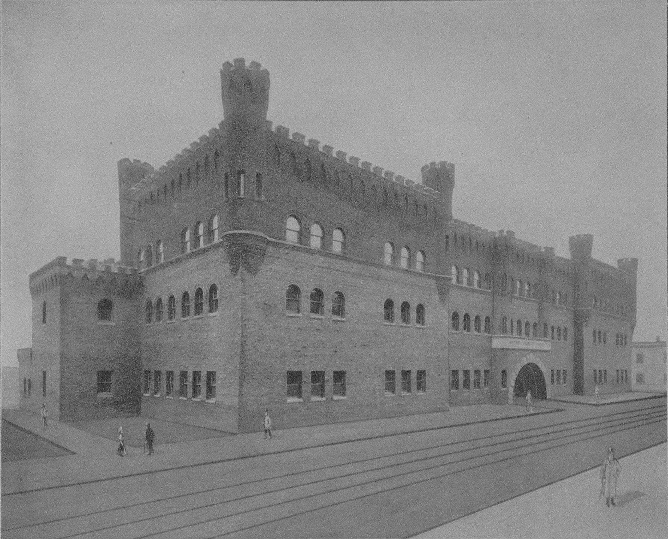 The then-new, now-demolished Washington National Guard Armory just north of Pike Place Market, Seattle, Washington, 1909. The photo is at least somewhat retouched (human figures drawn in).